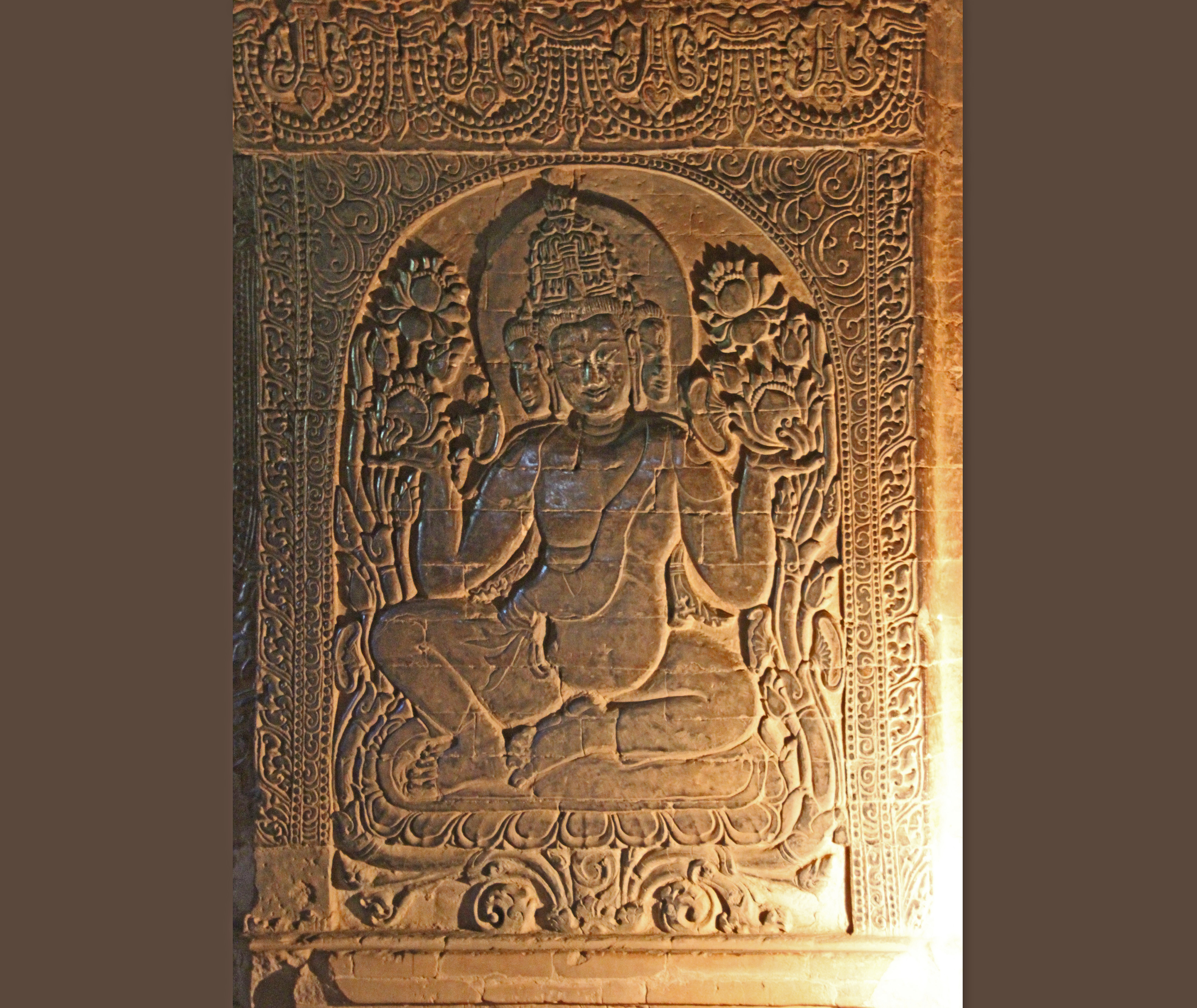 Nanpaya temple in Bagan in Myanmar